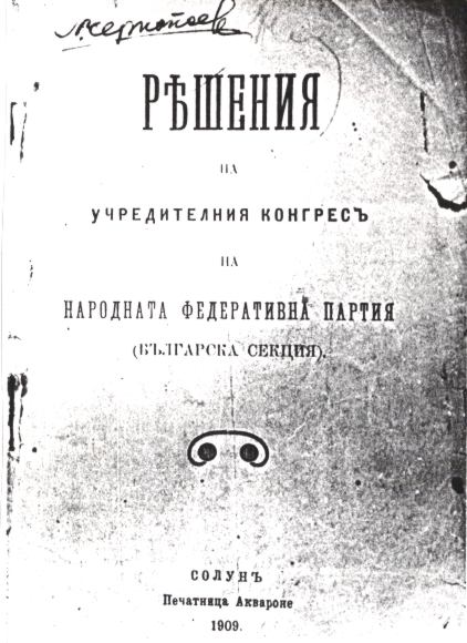 Resolutions of the Constituent Congress of the People's Federative Party (Bulgarian Section)